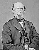 John F. Driggs, US Representative from Michigan